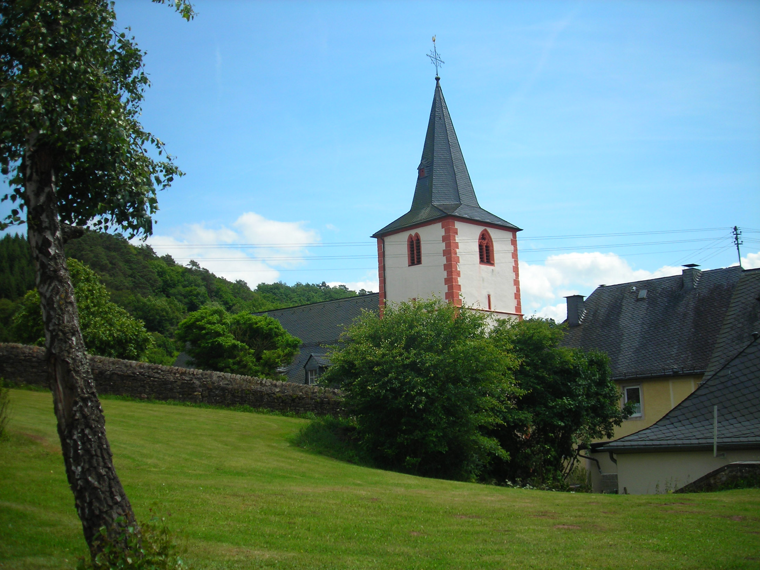 Church Niederbrombach